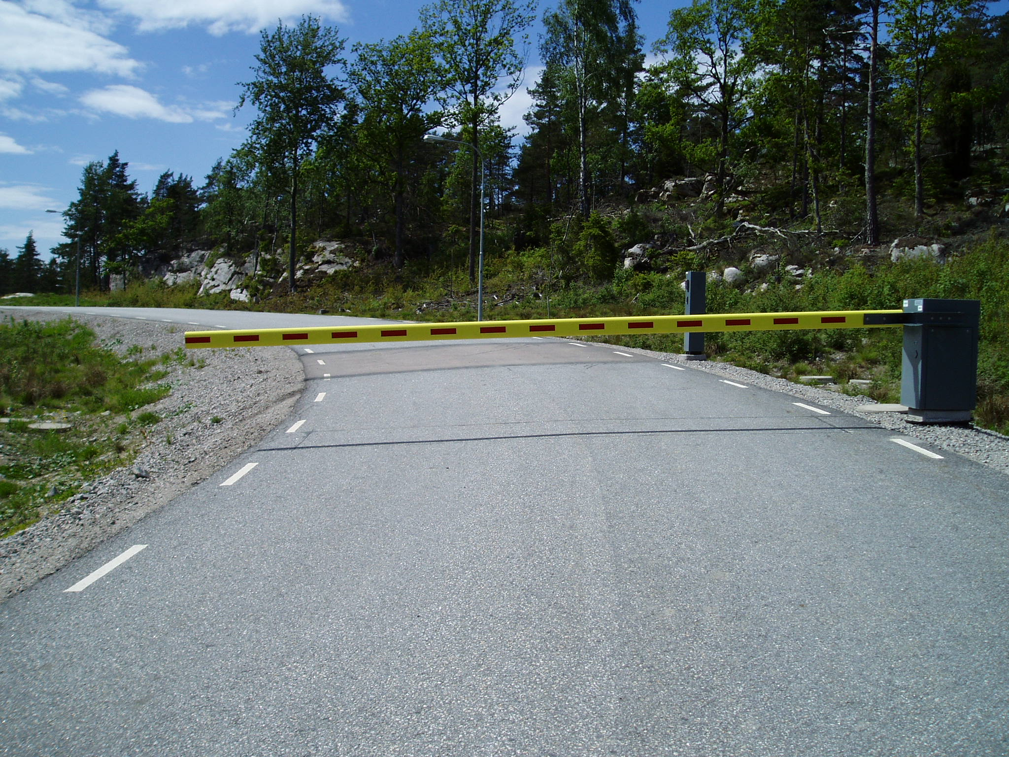 Road closed with a barrier. JohnM 17:02, 3 June 2006 (UTC)